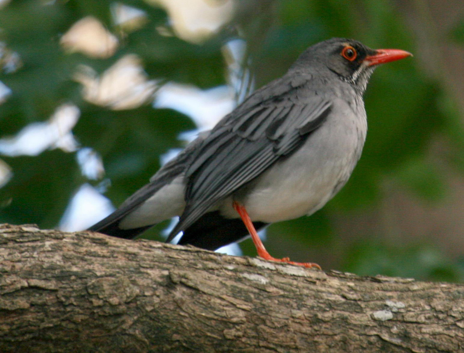 Red-legged Thrush (Turdus plumbeus) in Puerto Rico